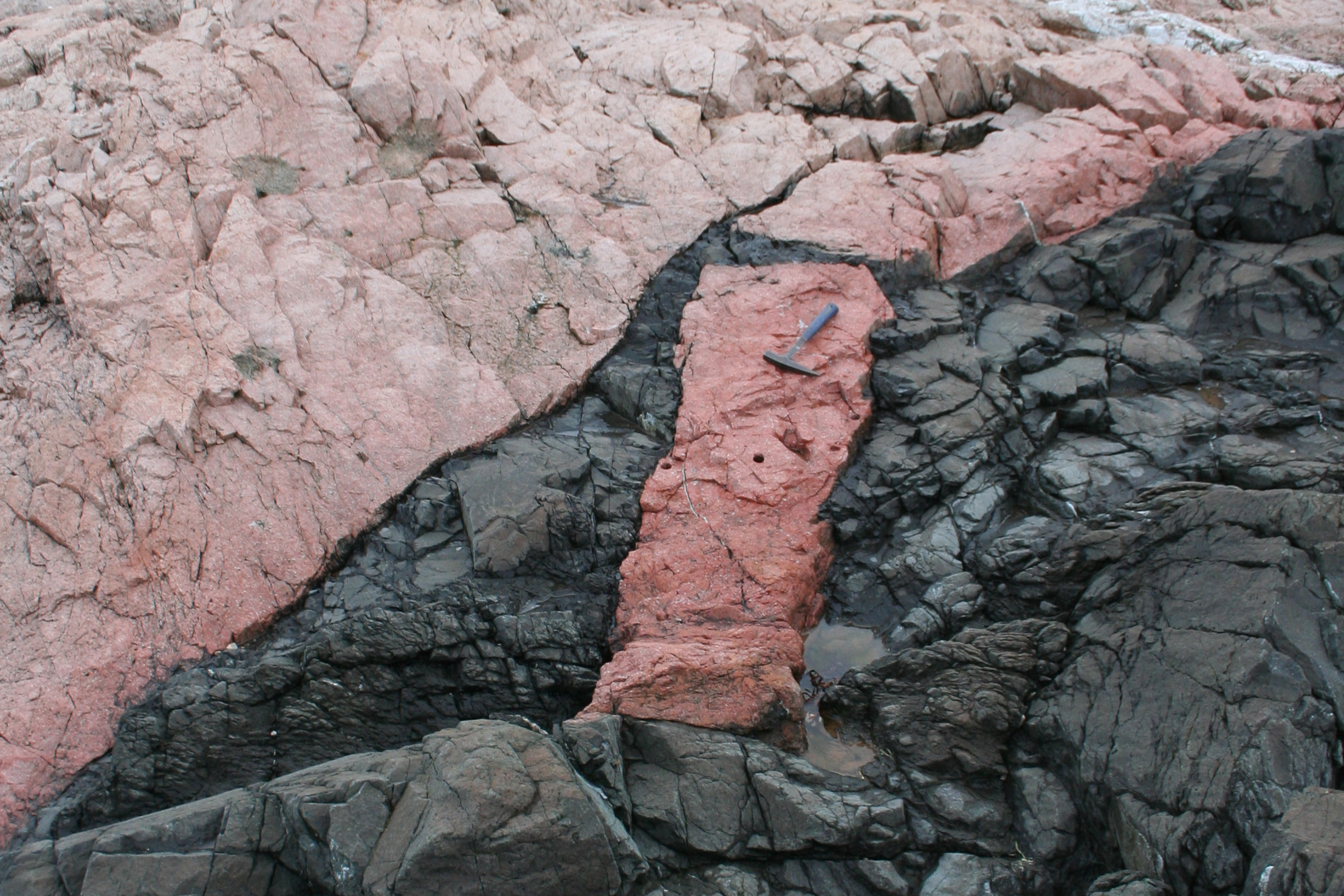 Included fragment (xenolith) of granite within basalt near Georgeville, Nova Scotia.